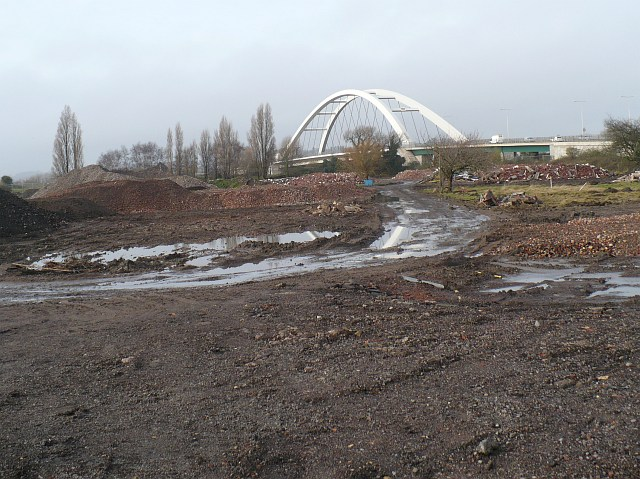 Site of Orb steelworks The full site of Orb steelworks occupies 74 acres. This 22 acre portion has been cleared for the creation of a housing development to be named Lysaght Village. John Lysaght of Wolverhampton established a steelworks on this site in 1898 and in its heyday it employed over 3000 people. In the background is the City Bridge .